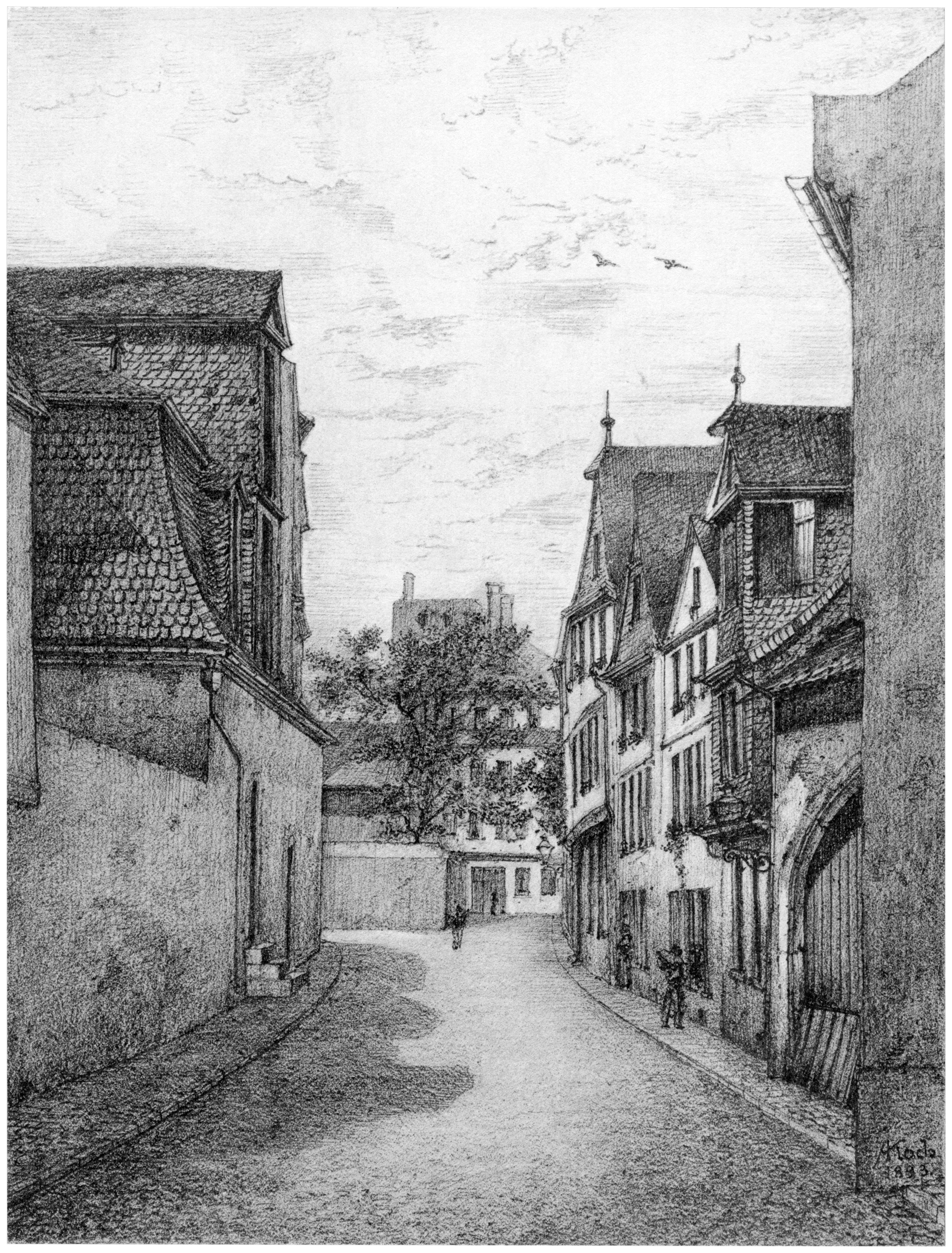 Frankfurt on the Main: The old Schlesingergasse (Schlesinger Lane).